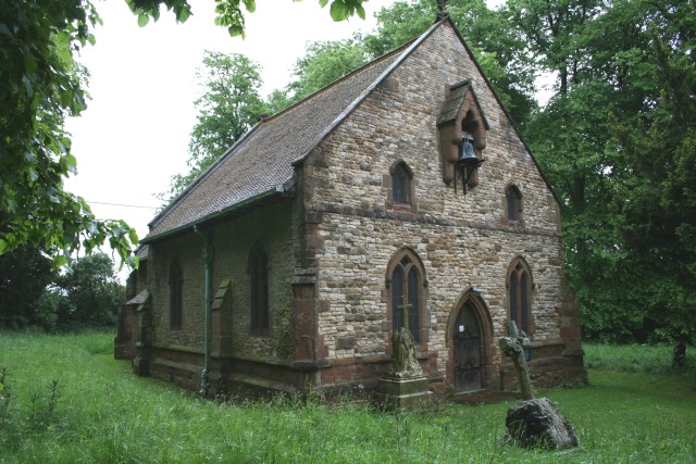 Photograph of the church of St Michael and All Angels, Brownsover